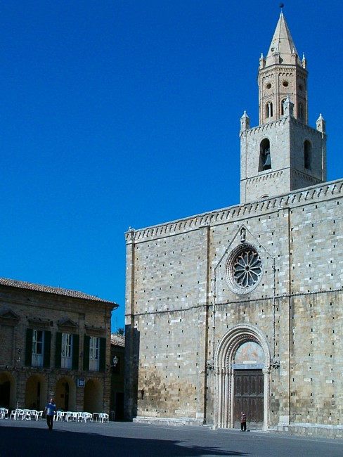 Atri, cattedrale Picture taken by user:Idéfix, july 2005